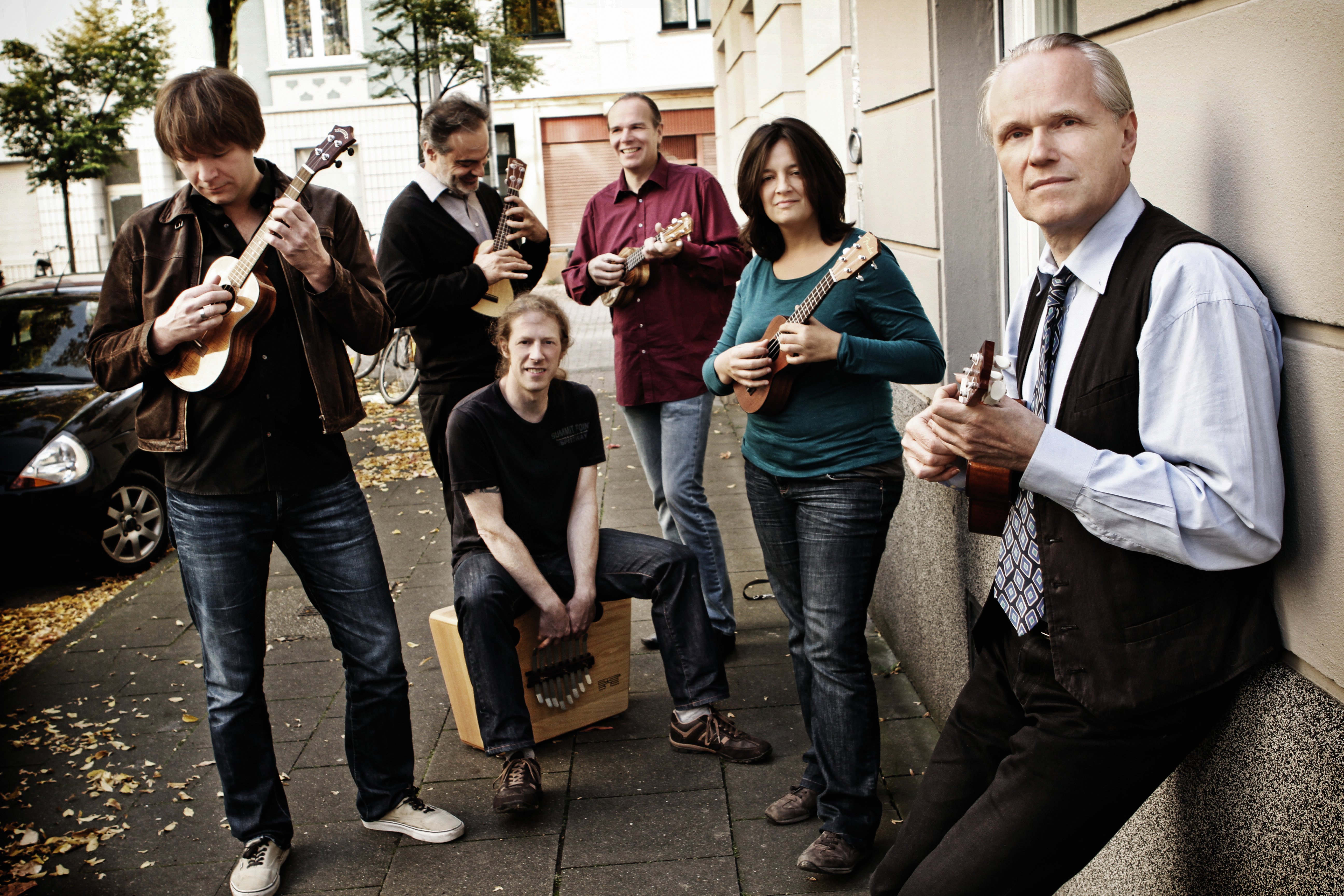 The CQ – Cologne Contemporary Ukulele Ensemble from Cologne, Germany (Photo: Marlene Mondorf).